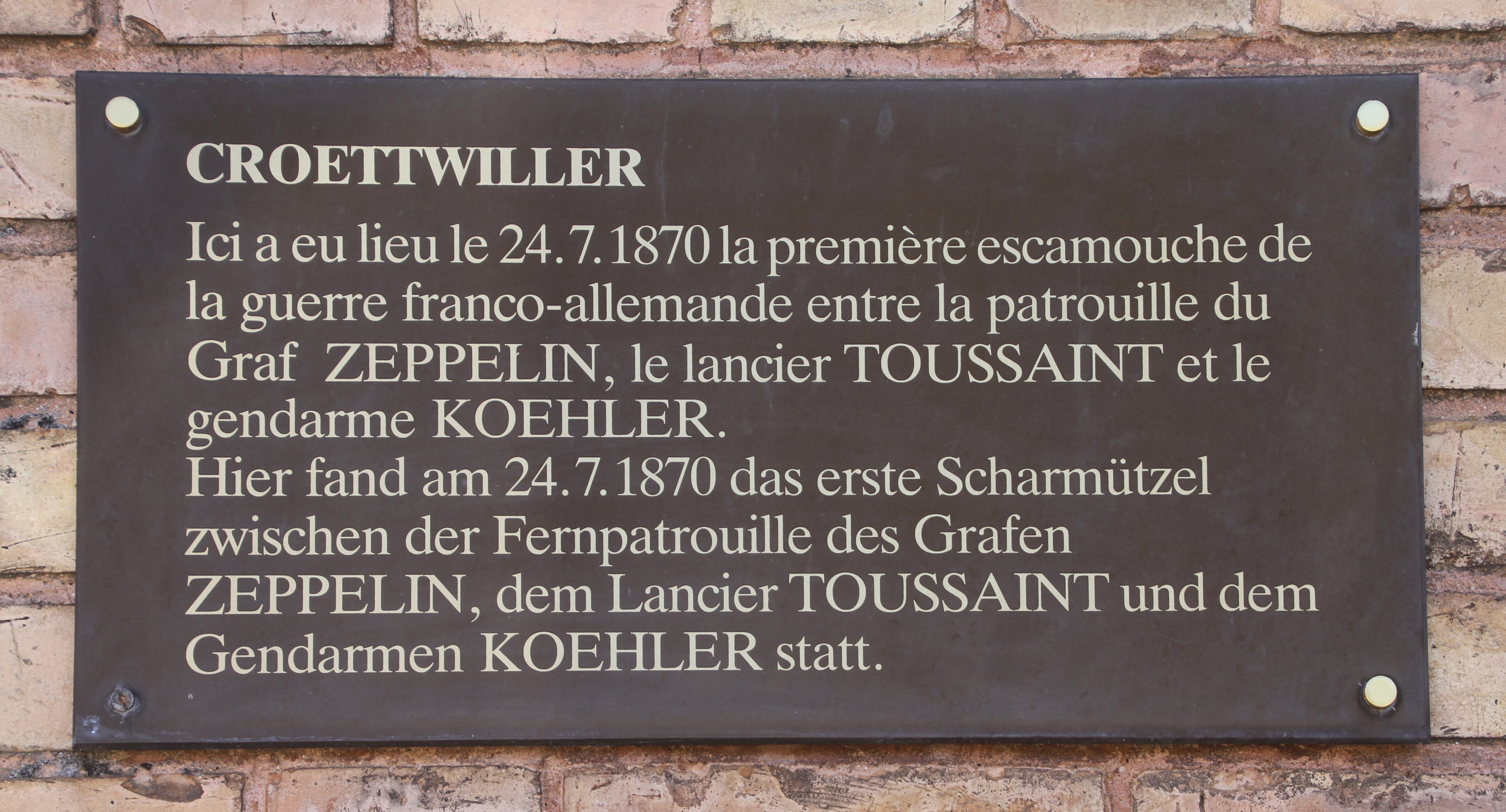 Croettwiller, Alsace